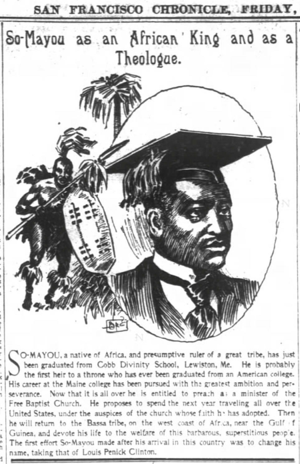 Lewis Penick Clinton an African Prince and Bates College graduate and missionary in Liberia in West Africa aka as Louis Penick Clinton